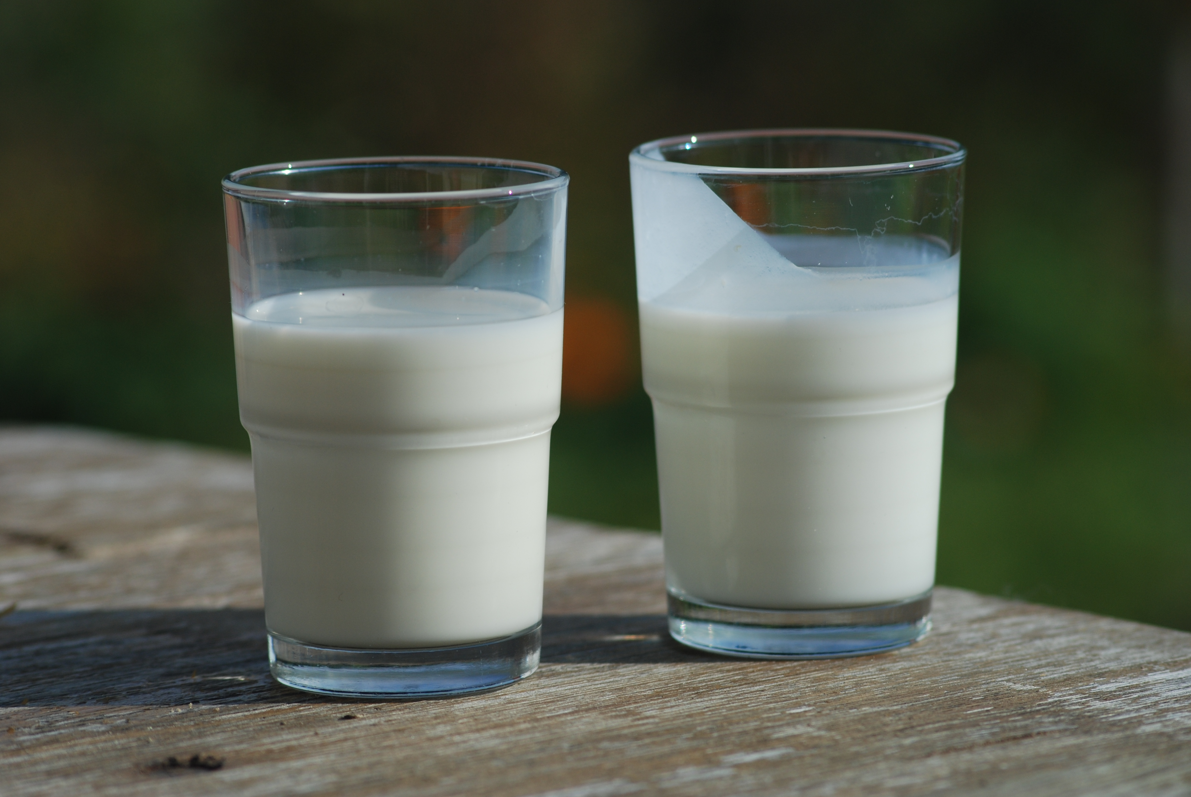 A glass of milk (left) and a glass of buttermilk (right). Buttermilk is thicker and covers the glass after taking a sip.